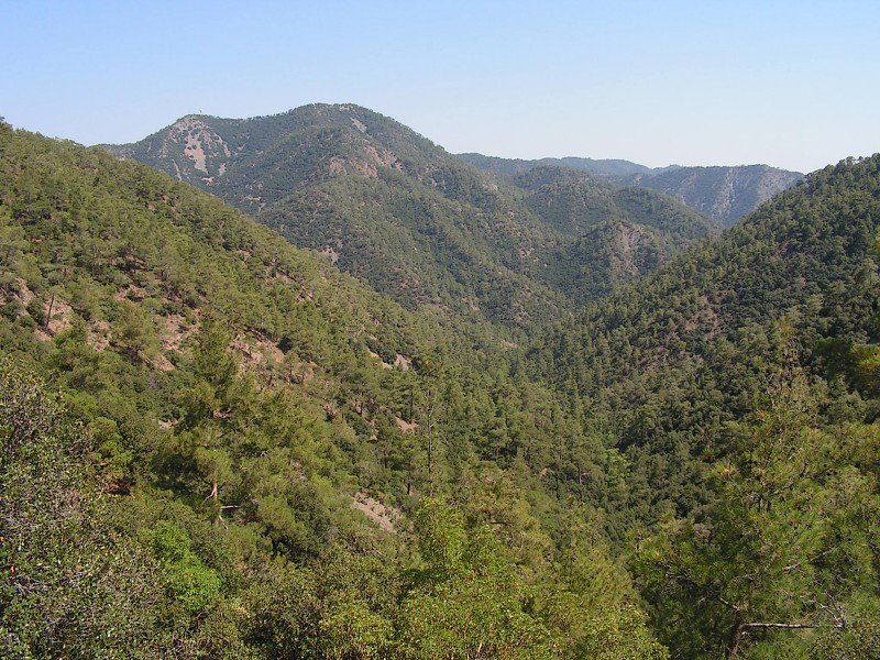 Troodos mountains in Cyprus.